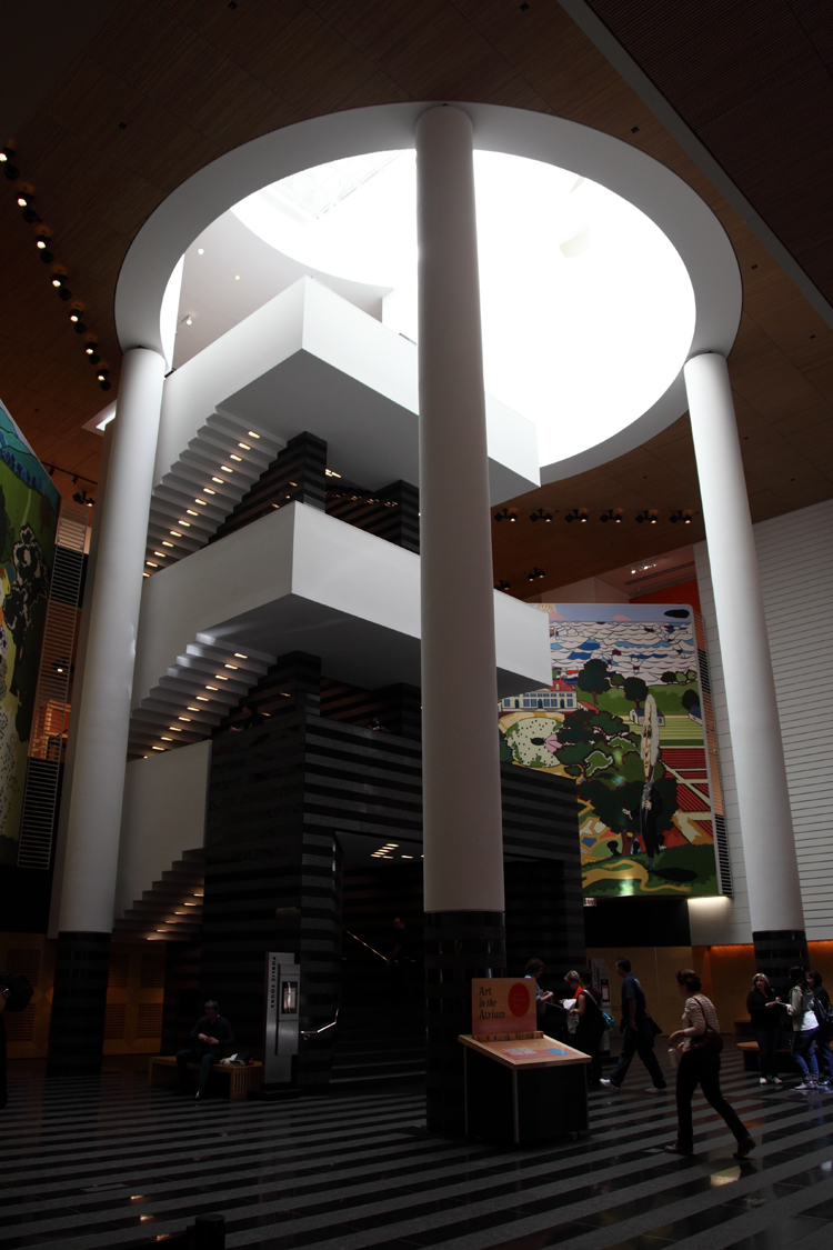 San Francisco Museum of Modern Art, interior staircase